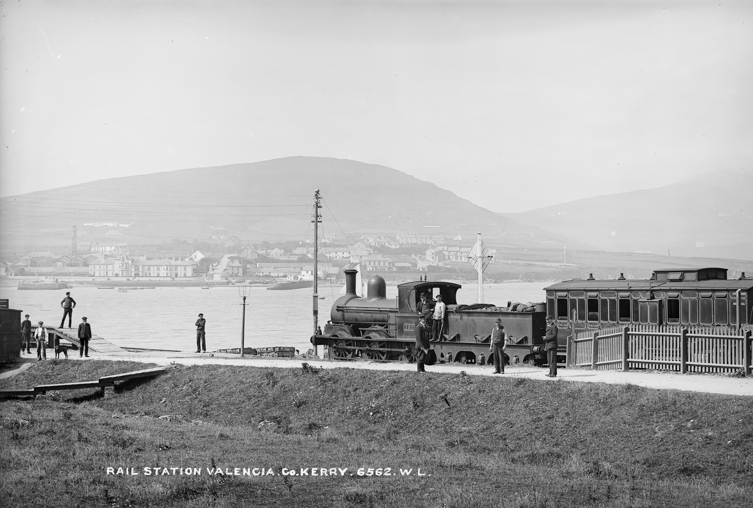 Locomotive 107 at Valentia (Valencia) Harbour Station in Co. Kerry… Photographer: Robert French of Lawrence Photographic Studios, Dublin Date: Between 1901 and 1908 NLI Ref.: L_CAB_06562